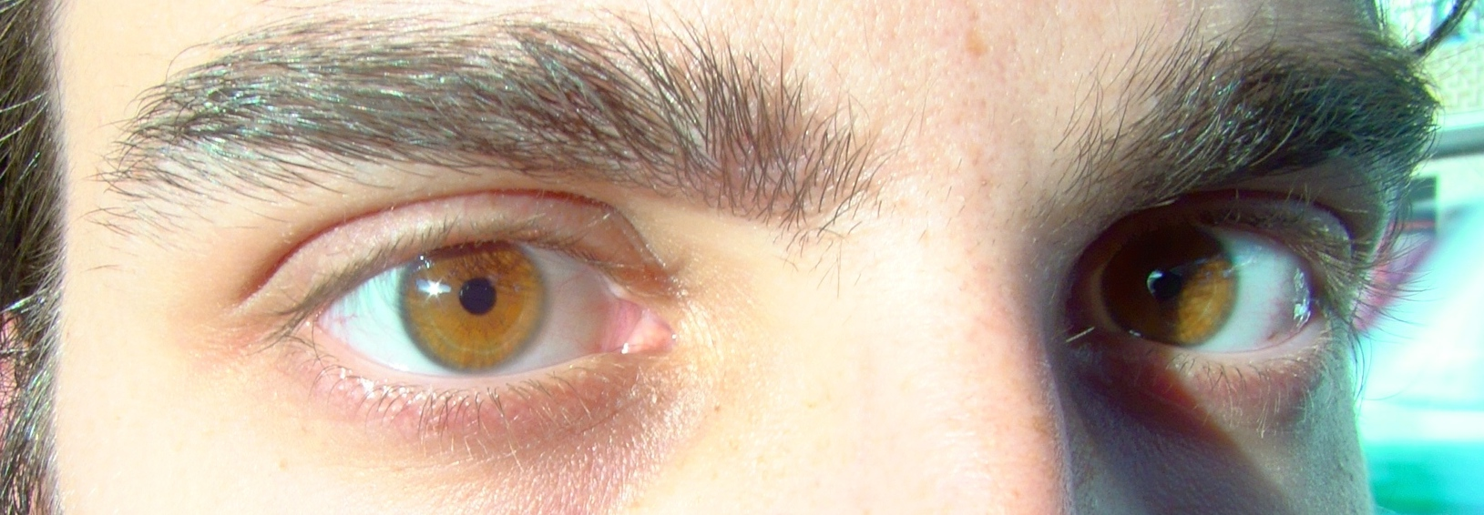 Amber eyes